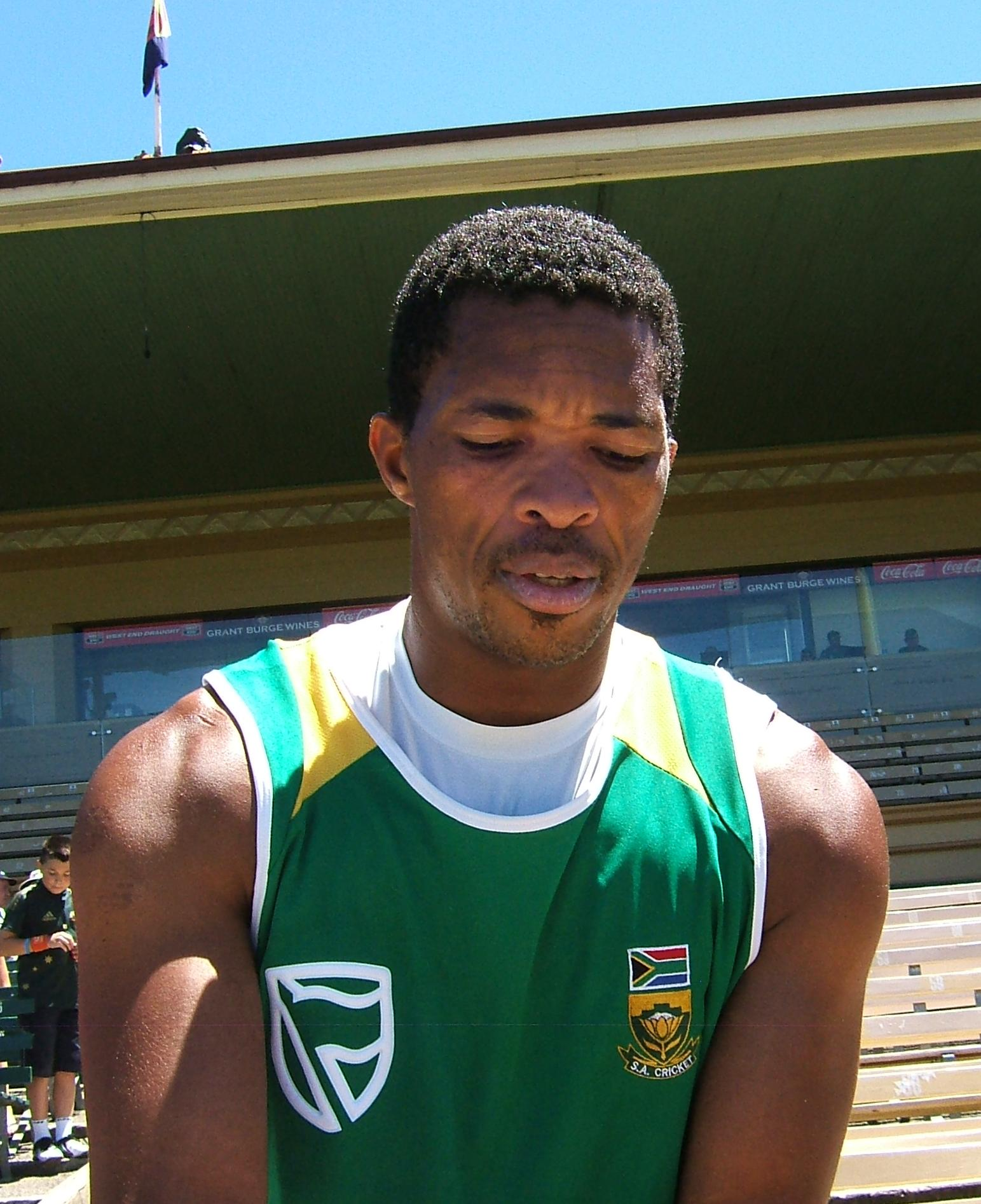 Makhaya Ntini at a training session at the Adelaide Oval